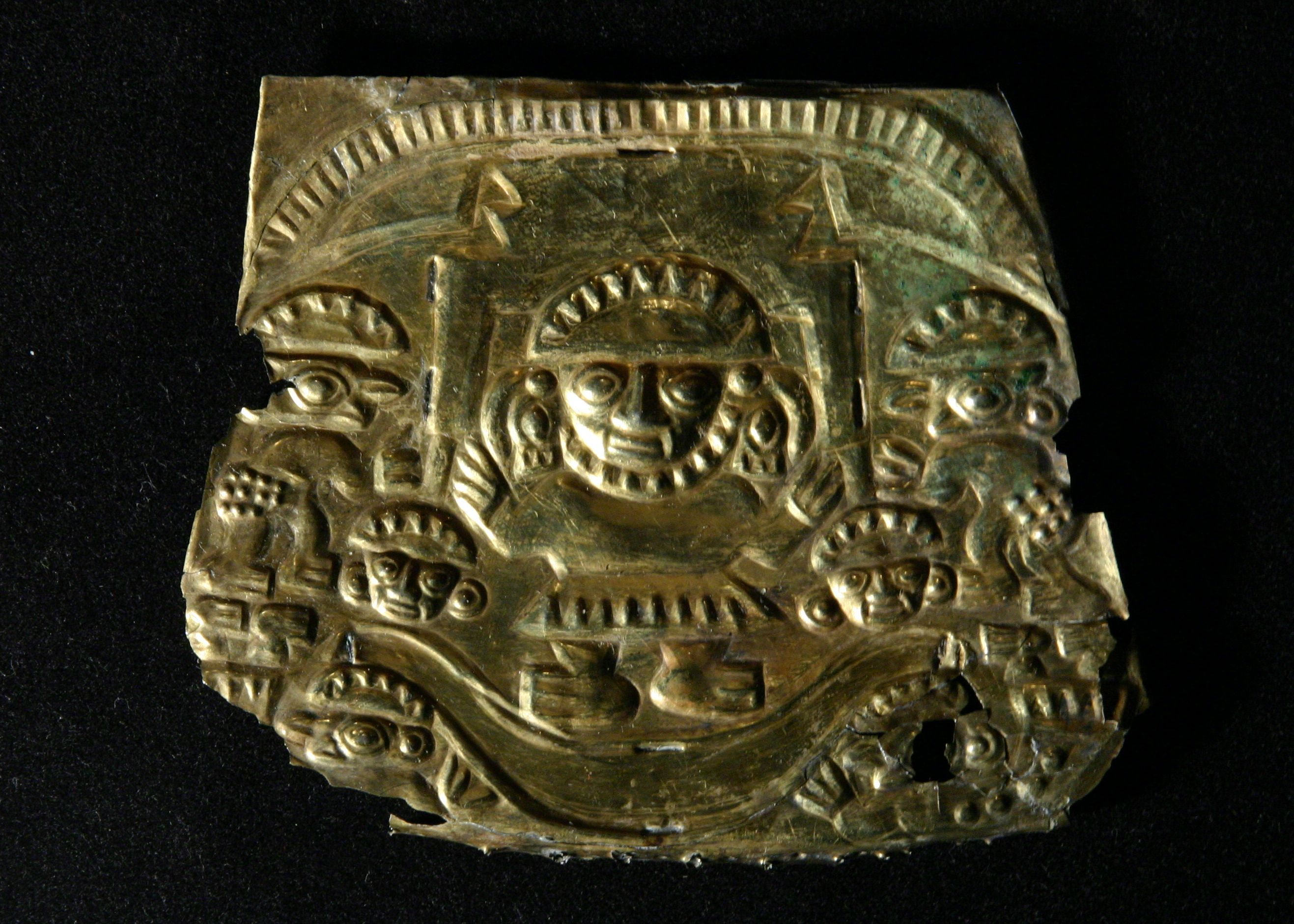 Naymlap, gold plaque, Chimu 1000-1450 A.D.